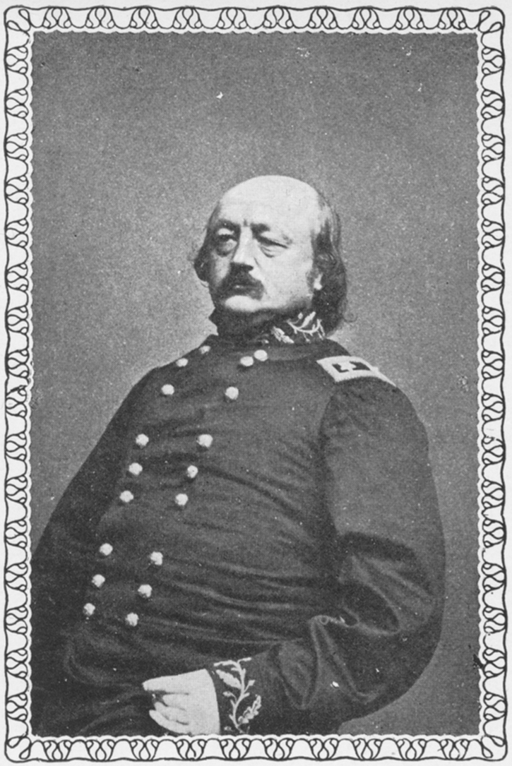 Three-quarters black and white portrait of General Benjamin F. Butler.